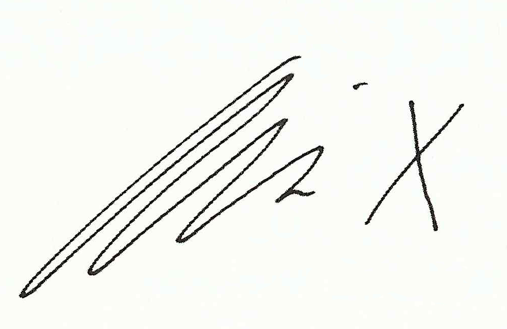 Allie X's signature cropped from the postcard which comes with The Story of X Chapter 1. It is not handwritten, but printed.